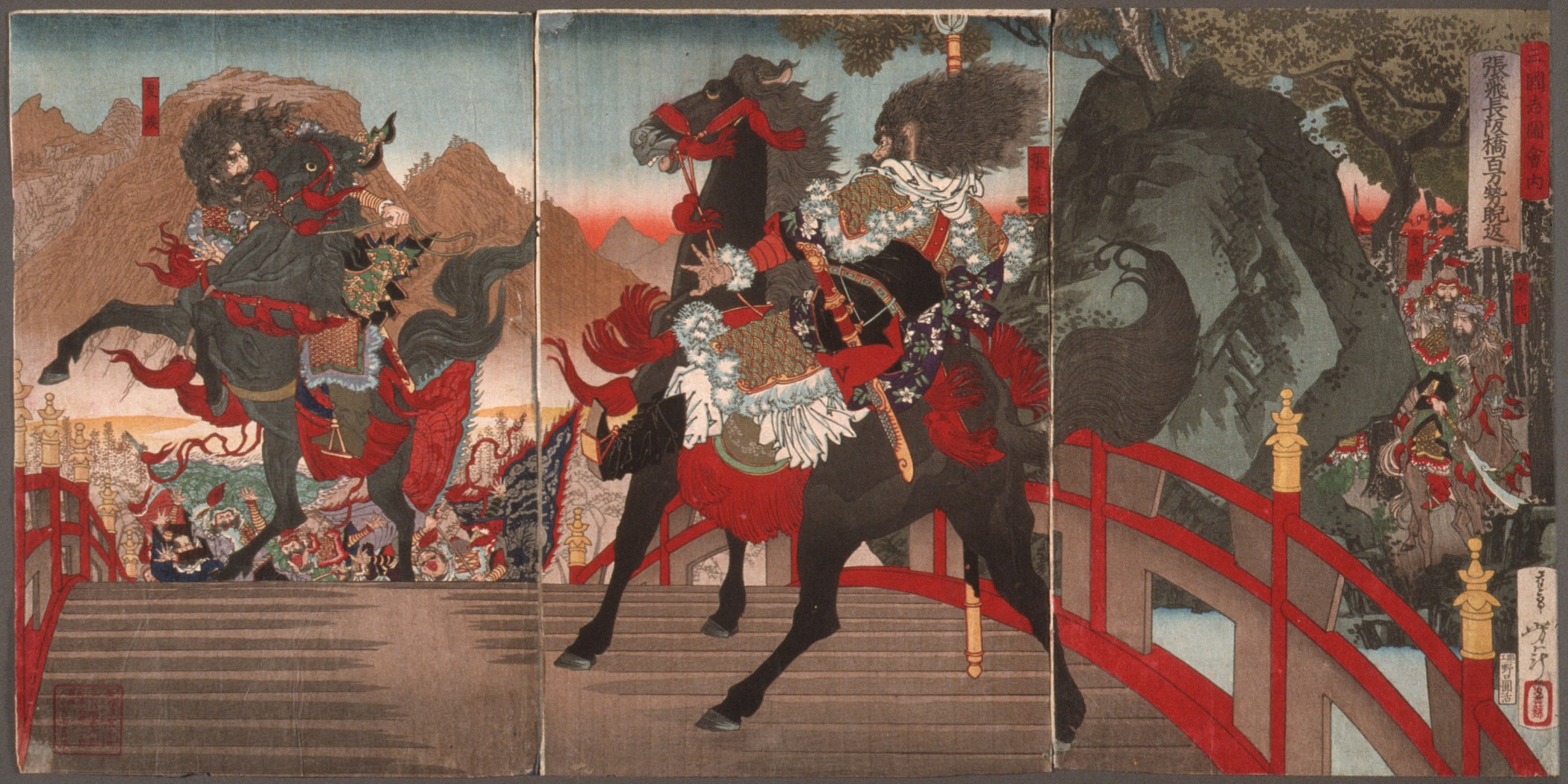 Japan, circa 1883 Series: Illustrations for the Romance of the Three Kingdoms Prints; woodcuts Triptych; color woodblock print Herbert R. Cole Collection (M.84.31.42a-c) Japanese Art